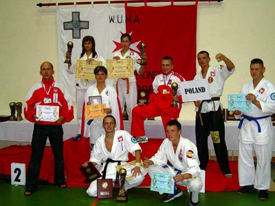 Sikoński Maciej matla 2006 worlds